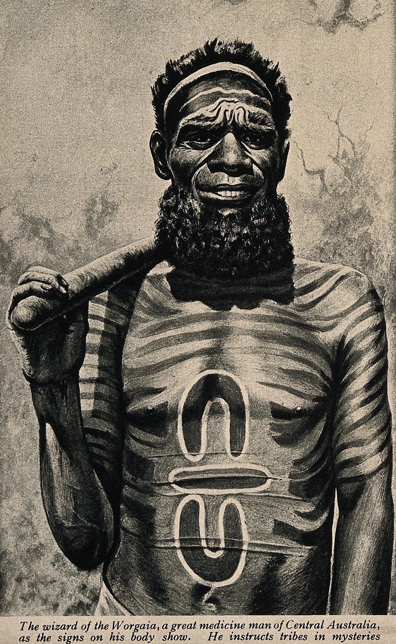 A shaman or medicine man with extensive body painting, Worgaia, Central Australia. Process print. Iconographic Collections